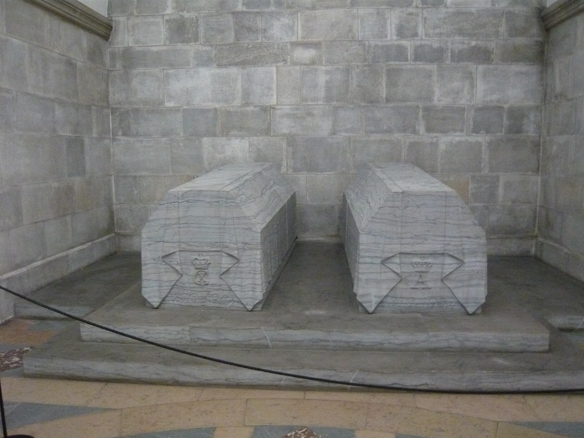 The marble coffins of (on the left) Christian X of Denmark (1870-1947) and Alexandrine of Mecklenburg-Schwerin (1879-1952).